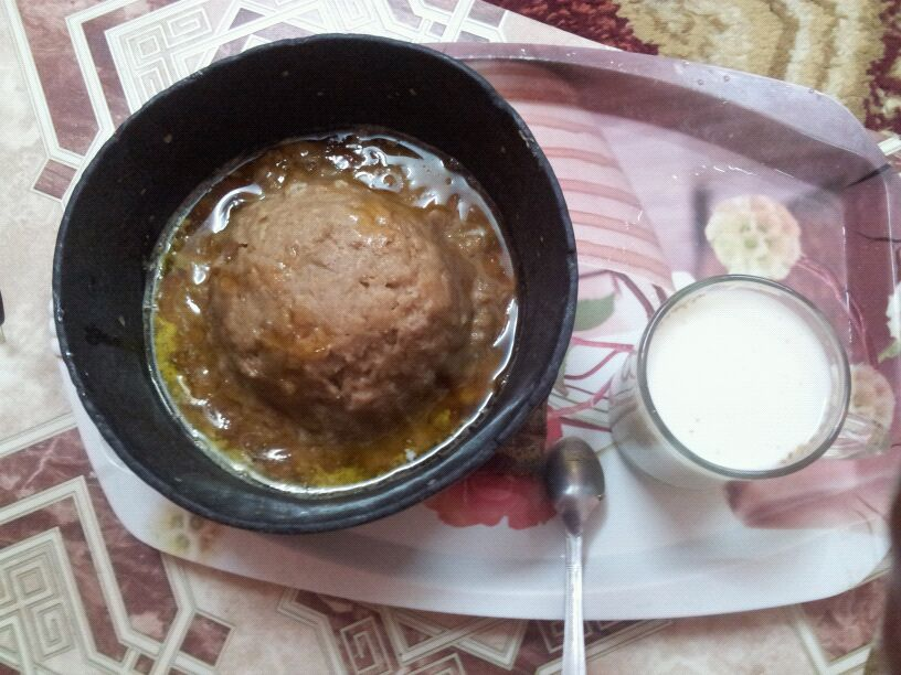 This is a traditional food in NAJRAN,SA called muhad and saman.